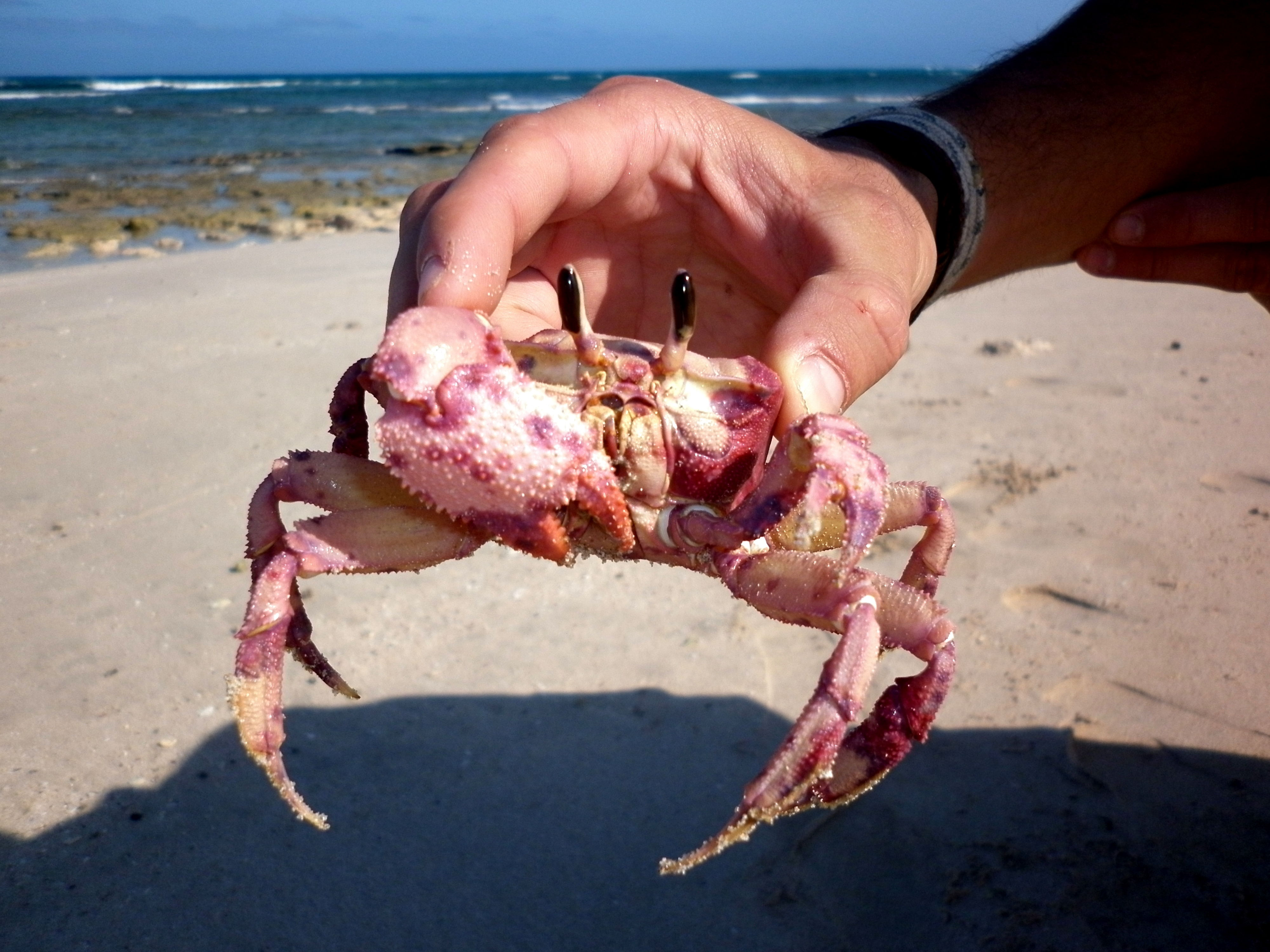 Golden ghost crab (Ocypode convexa) with epibiotic growth